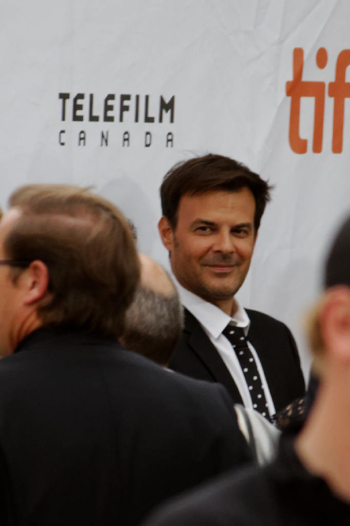 François Ozon director of The New Girlfriend 2